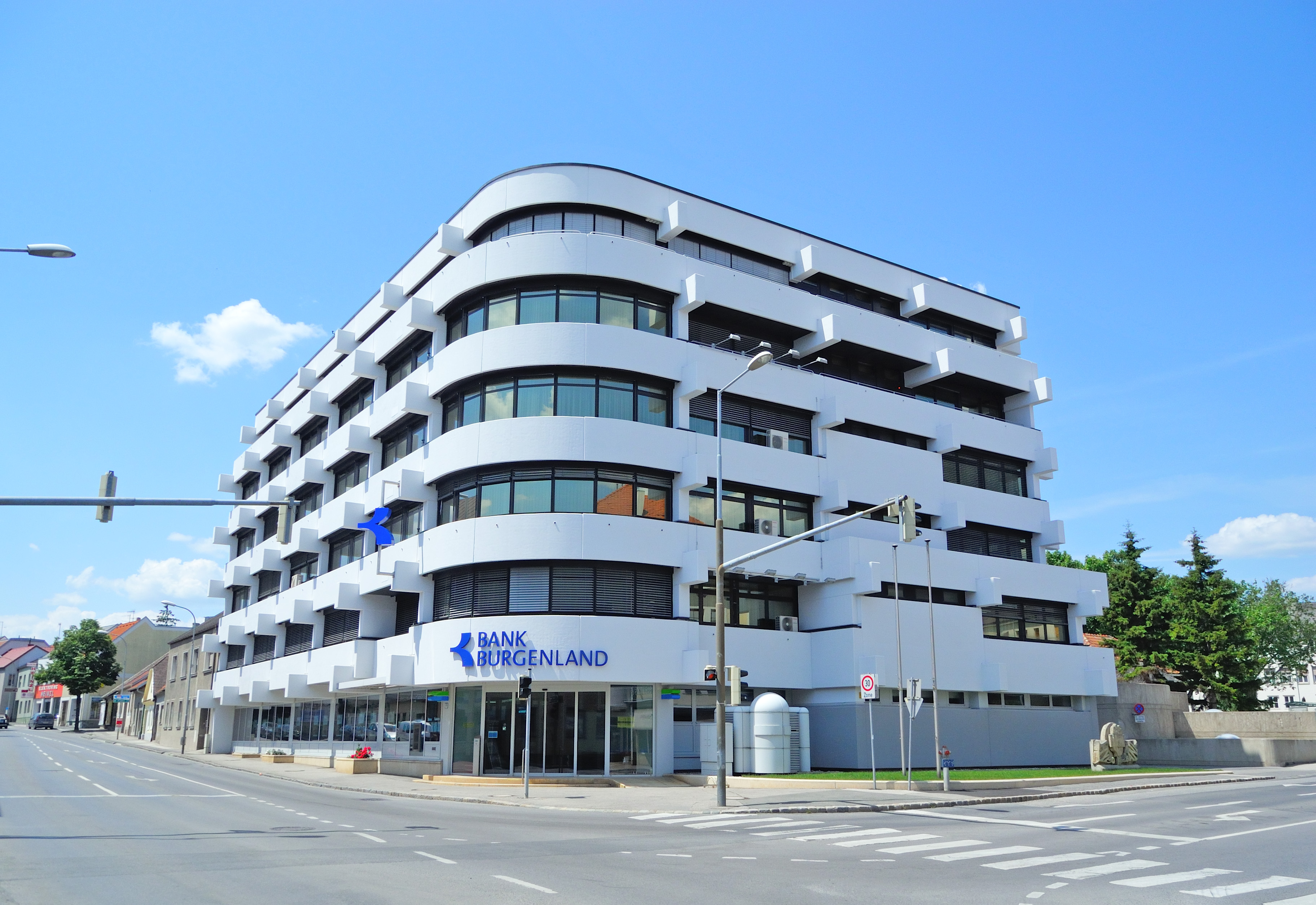 Headquarter of Bank Burgenland in Eisenstadt, Burgenland, Austria